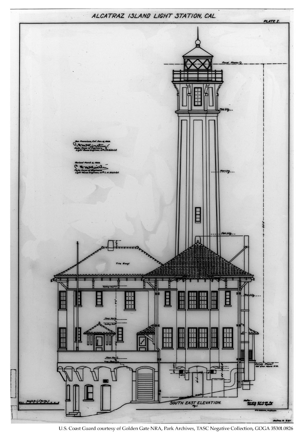 The second Alcatraz Light